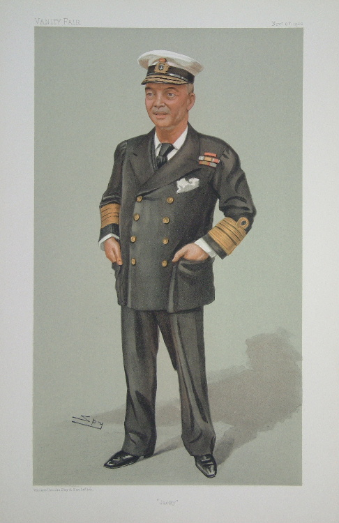 Cartoon of Vice Admiral John "Jacky" Fisher (1841-1920).